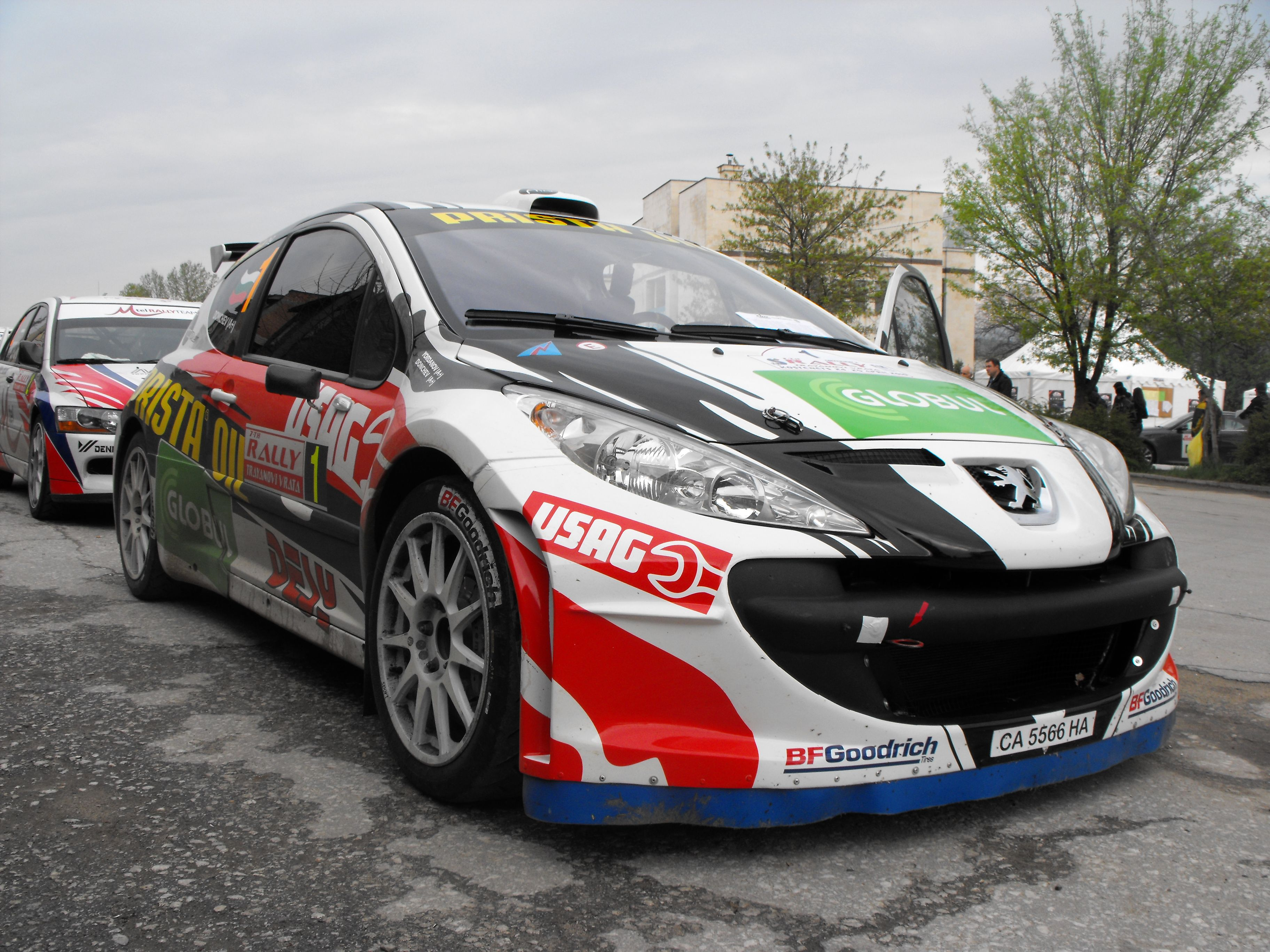 Peugeout 207 DONCHEV SPORT